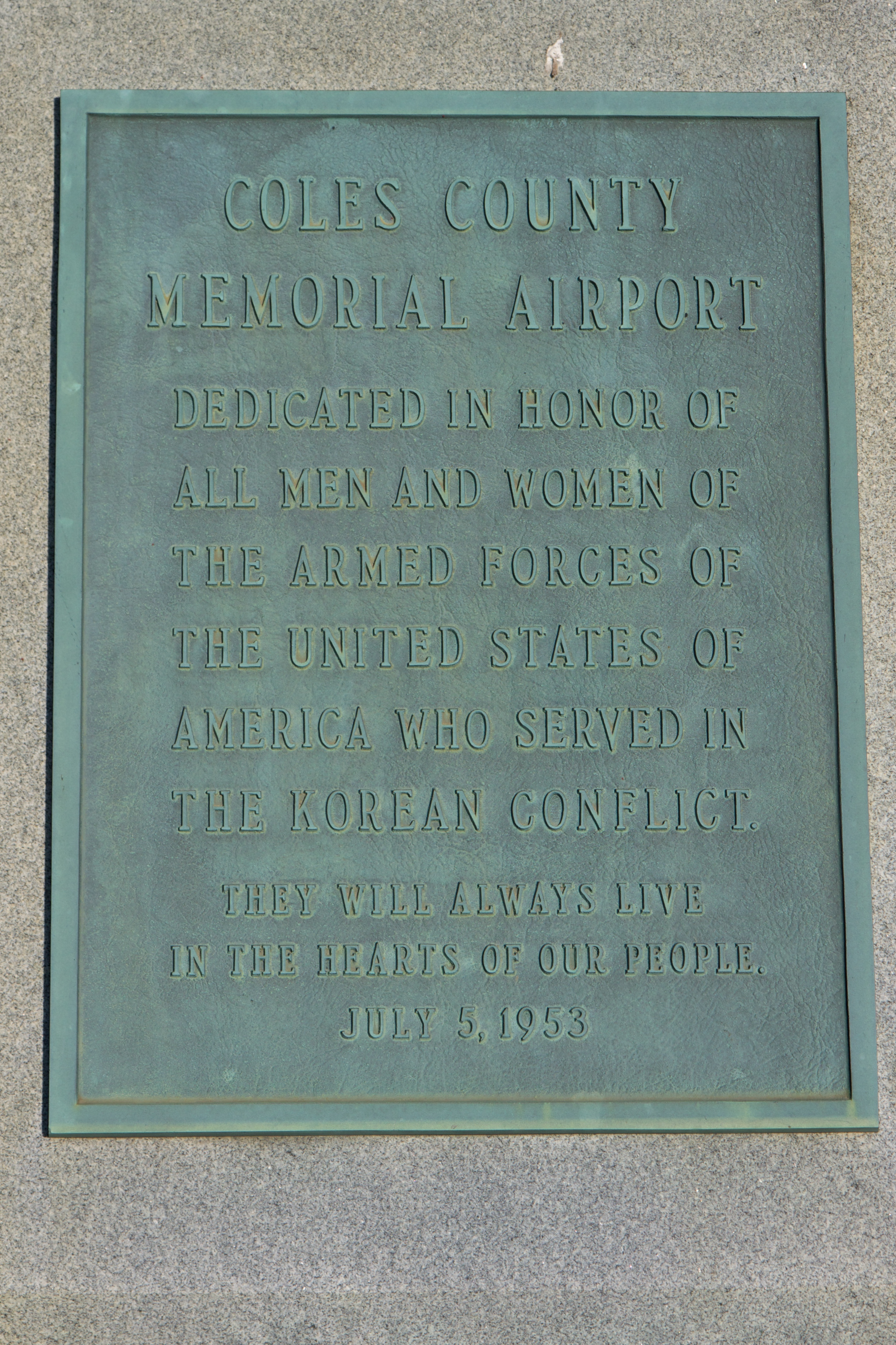 Scenes of Mattoon IL